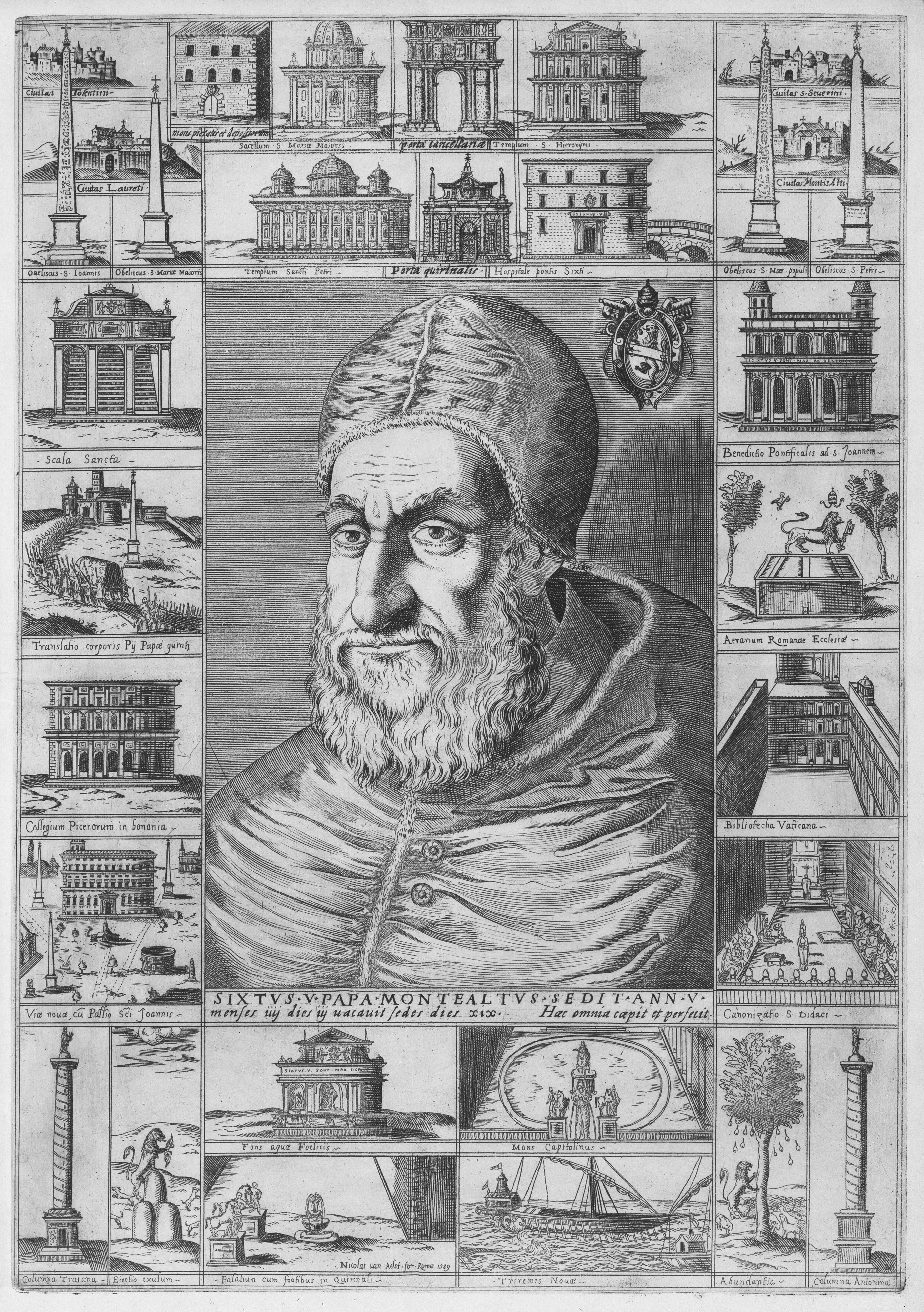 Print; Prints